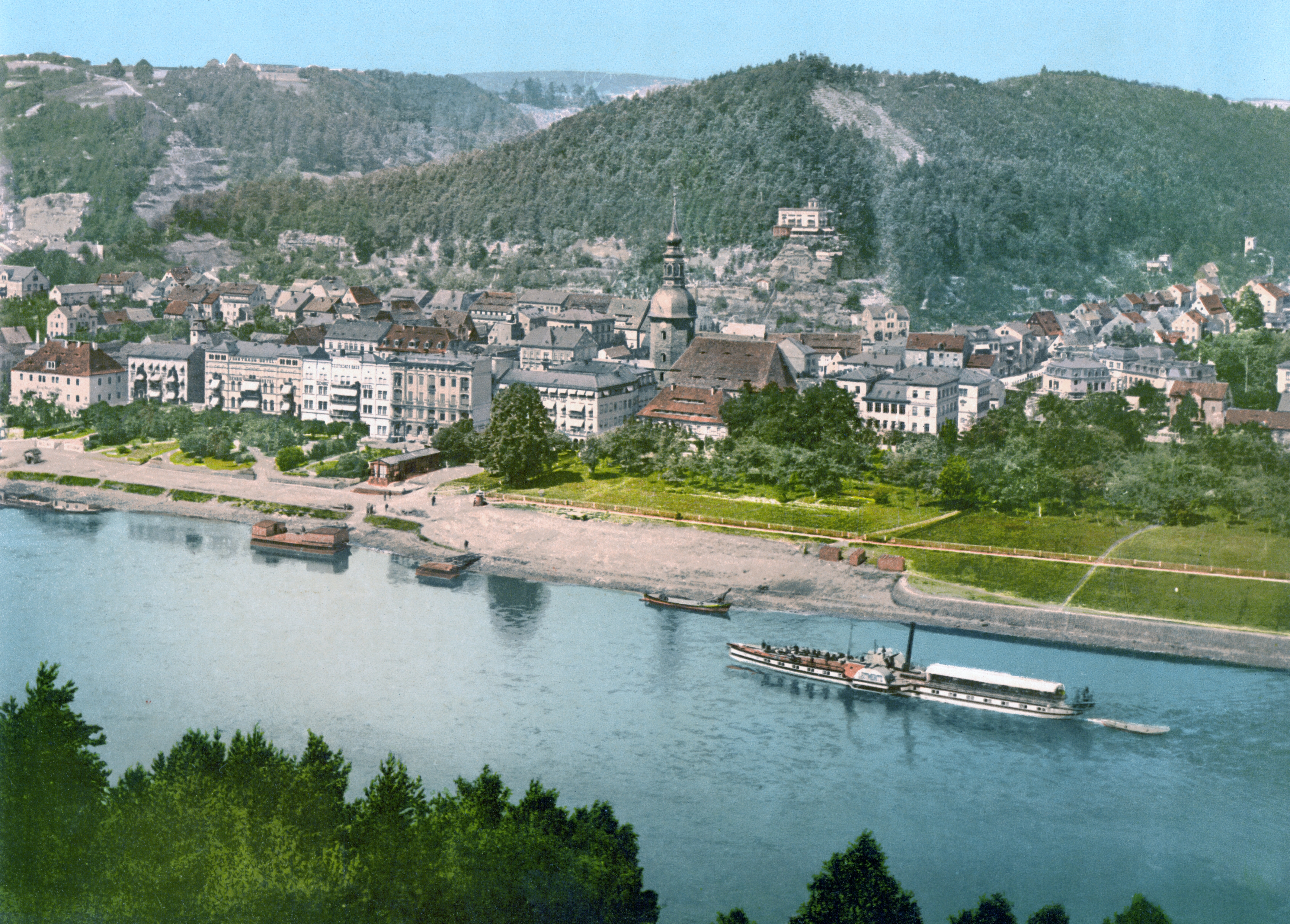 Bad Schandau (Saxony, Germany)